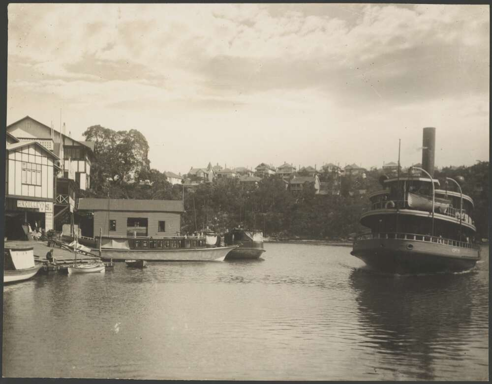 Sydney Ferry KUBU in Mosman Bay Ferry Kubu approaching Mosman dock, Mosman Bay, Sydney Harbour, ca. 1935 (1920).